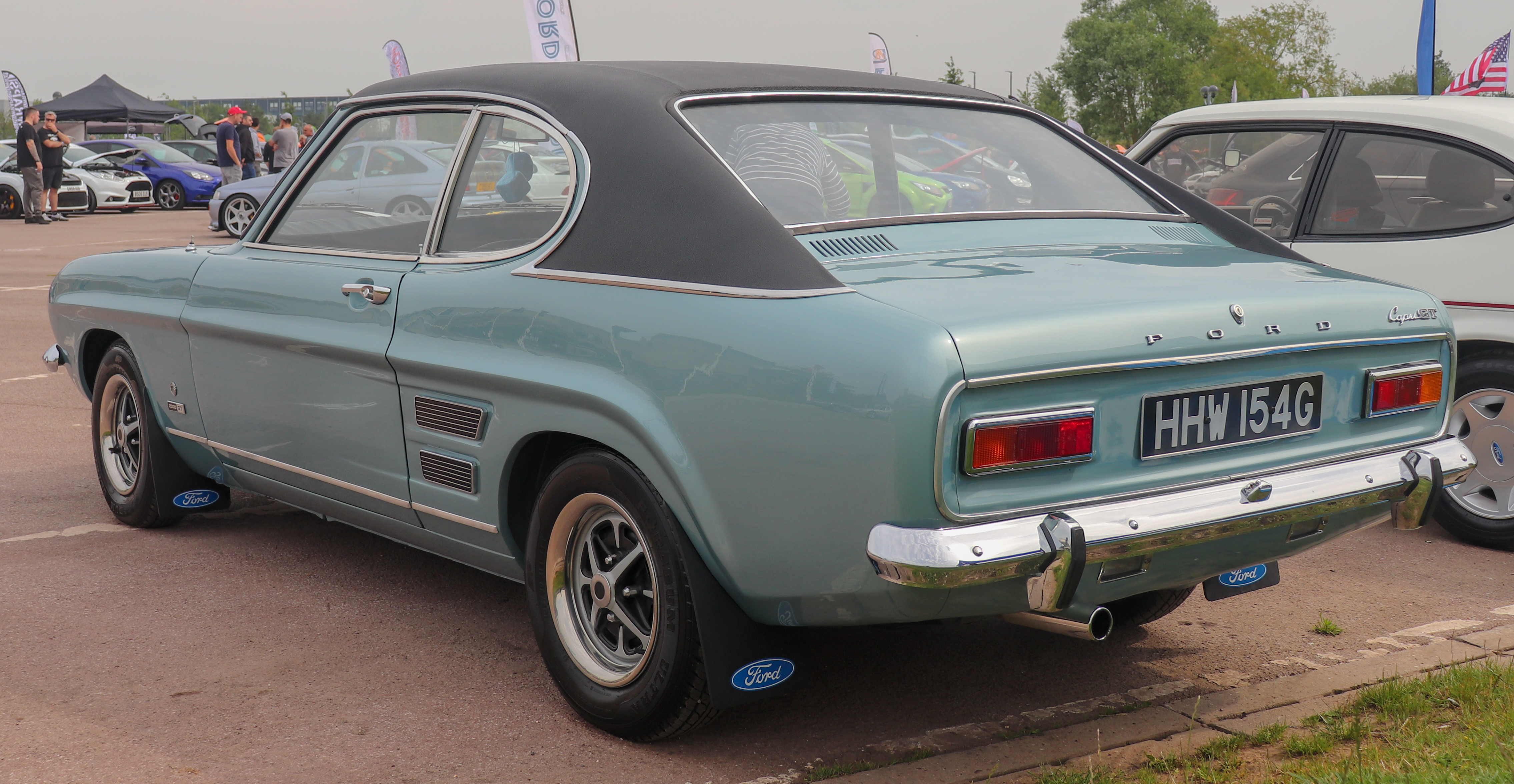 1969 Ford Capri GT 2.0 Rear Taken at the Ford Nationals 2019, British Motor Museum, Gaydon